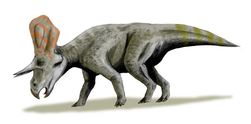 Zuniceratops christopheri, a ceratopsian from the Late Cretaceous of North America, pencil drawing, digital coloring